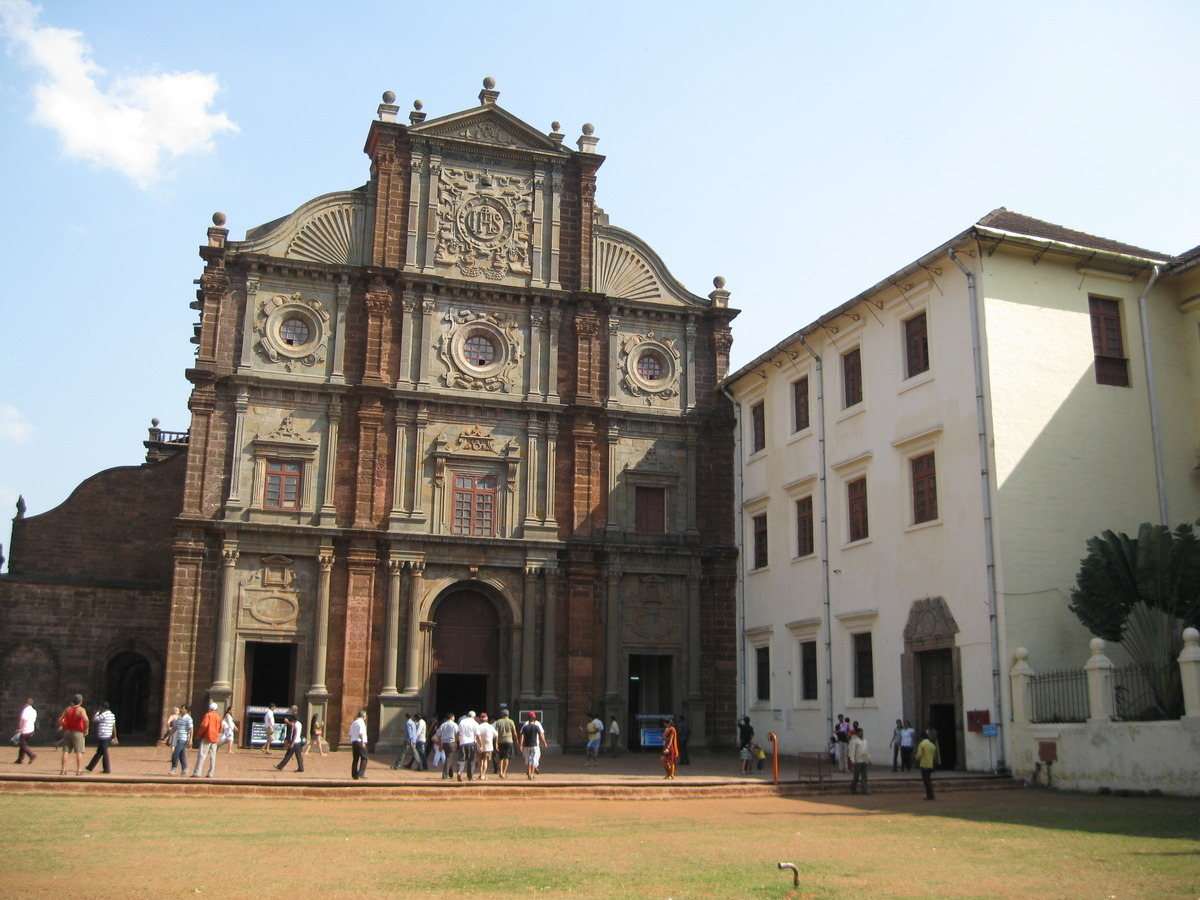 Entrance to the Basilica of Bom Jesus